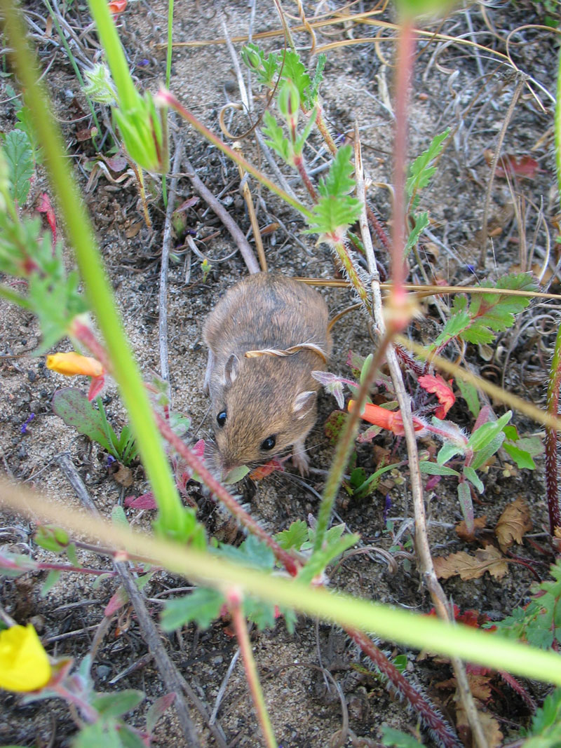 Pacific pocket mouse (Perognathus longimembris pacificus)